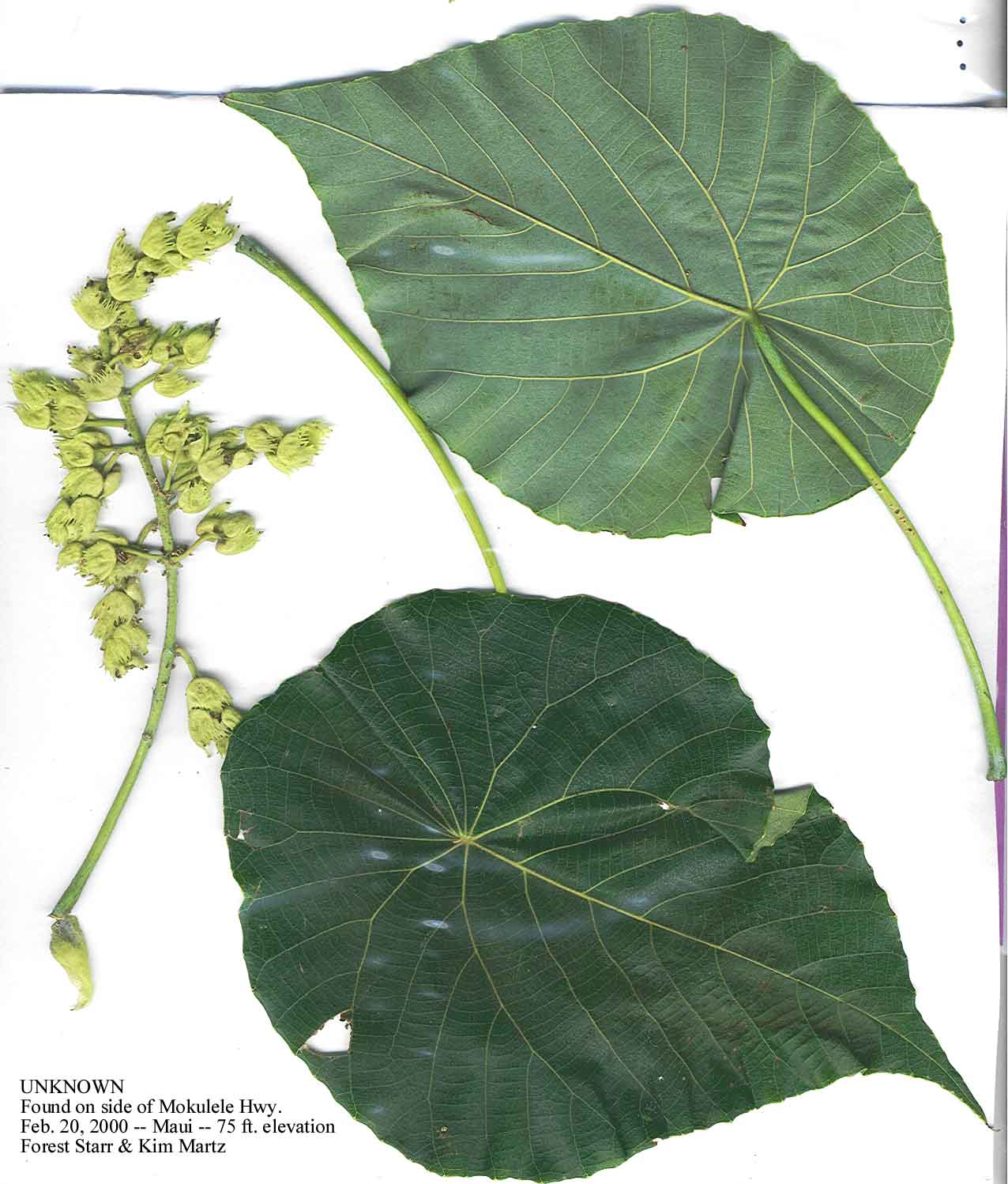 Macaranga tanarius (leaves and flowers). Location: Maui, Mokulele Hwy